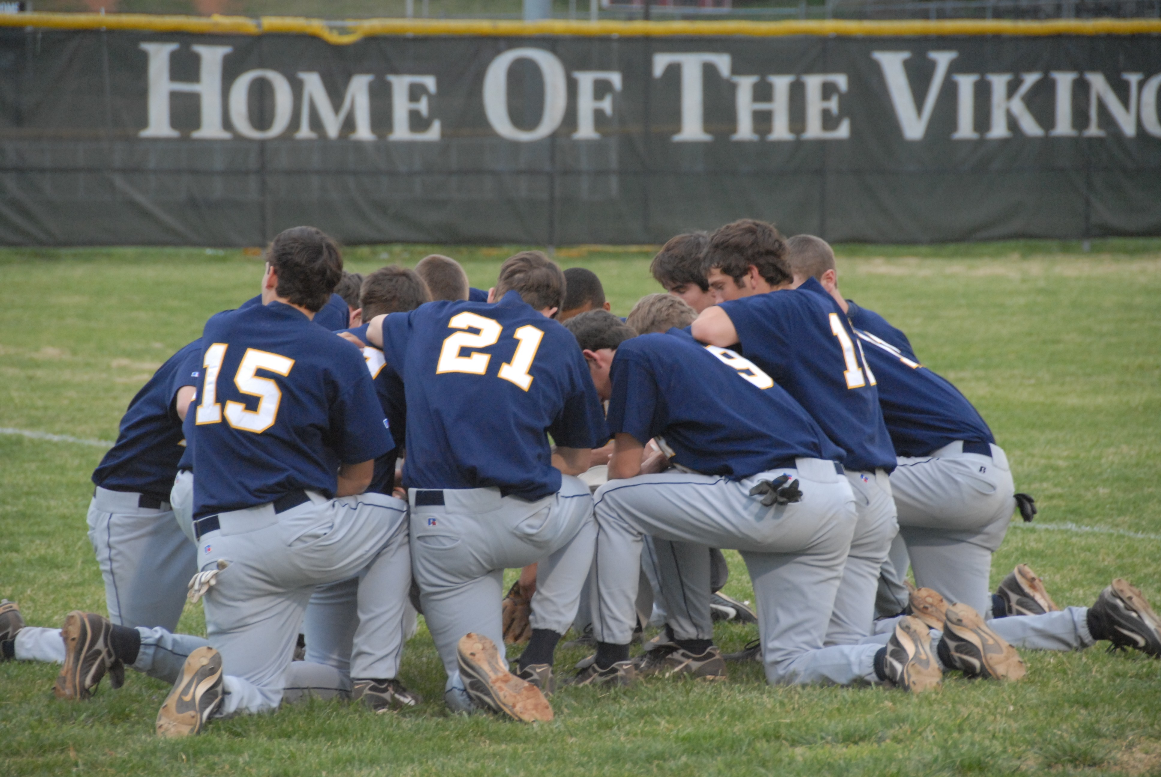 The Mount Tabor High School (Winston-Salem, North Carolina) baseball team prays before a conference-championship game against West Forsyth High School.